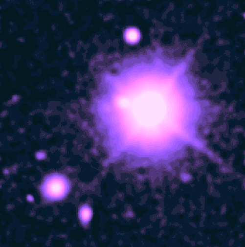 Optical Image of the BL Lac PKS 2155-304